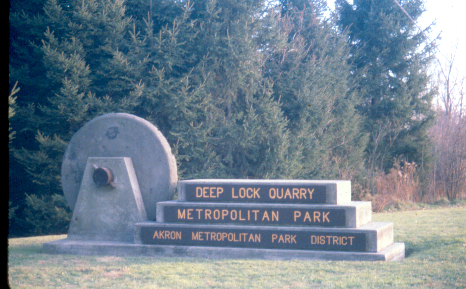 Deep Lock Quarry Metro Park, Peninsula, Ohio.